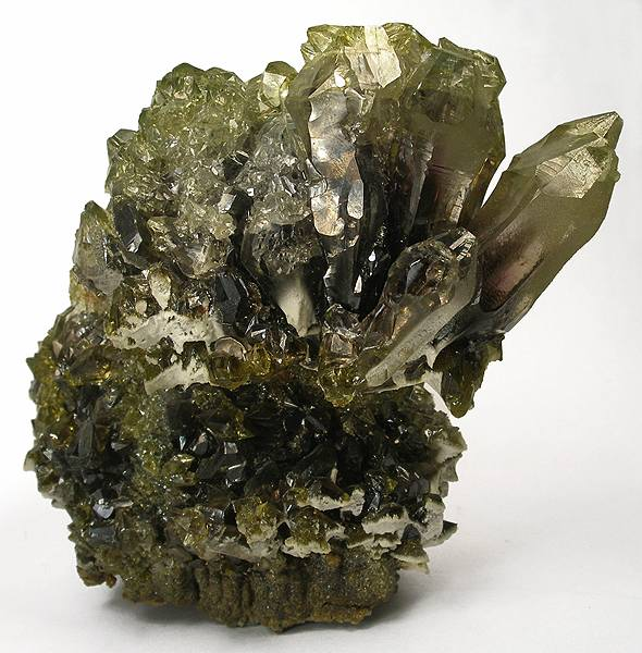 Zincite Locality: Poland (Locality at ) Size: 11.7 x 10.7 x 7.5 cm. SYNTHETIC: Examples of this material first made it to Tucson in the late 1980s. Exciting new material (at high prices that would make you shiver) gave way to the realization that these were in fact formed in mine fires and were not natural. Later, somebody replicated the process in the lab and now synthetic zincite like this is grown for decorative use and collectibles as they are so beautiful. Nevertheless, this is a dramatic specimen of (synthetic) zincite, with sparkling, glassy and gemmy, multihued-yellow-green crystals reaching 4 cm in length. Weighs 1056 grams.